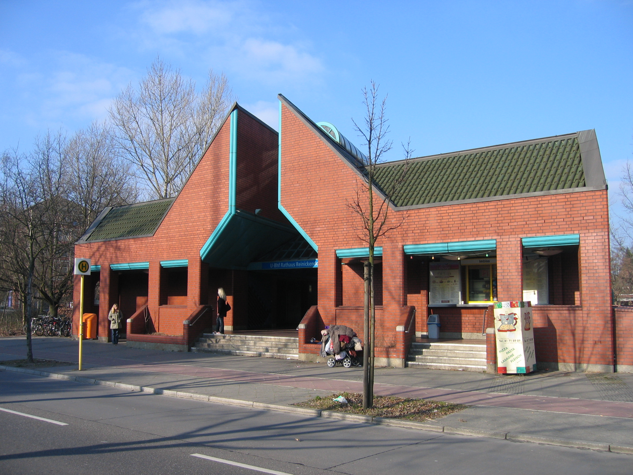 Entrance to the Rathaus Reinickendorf station on the U8 line of the Berlin U-Bahn